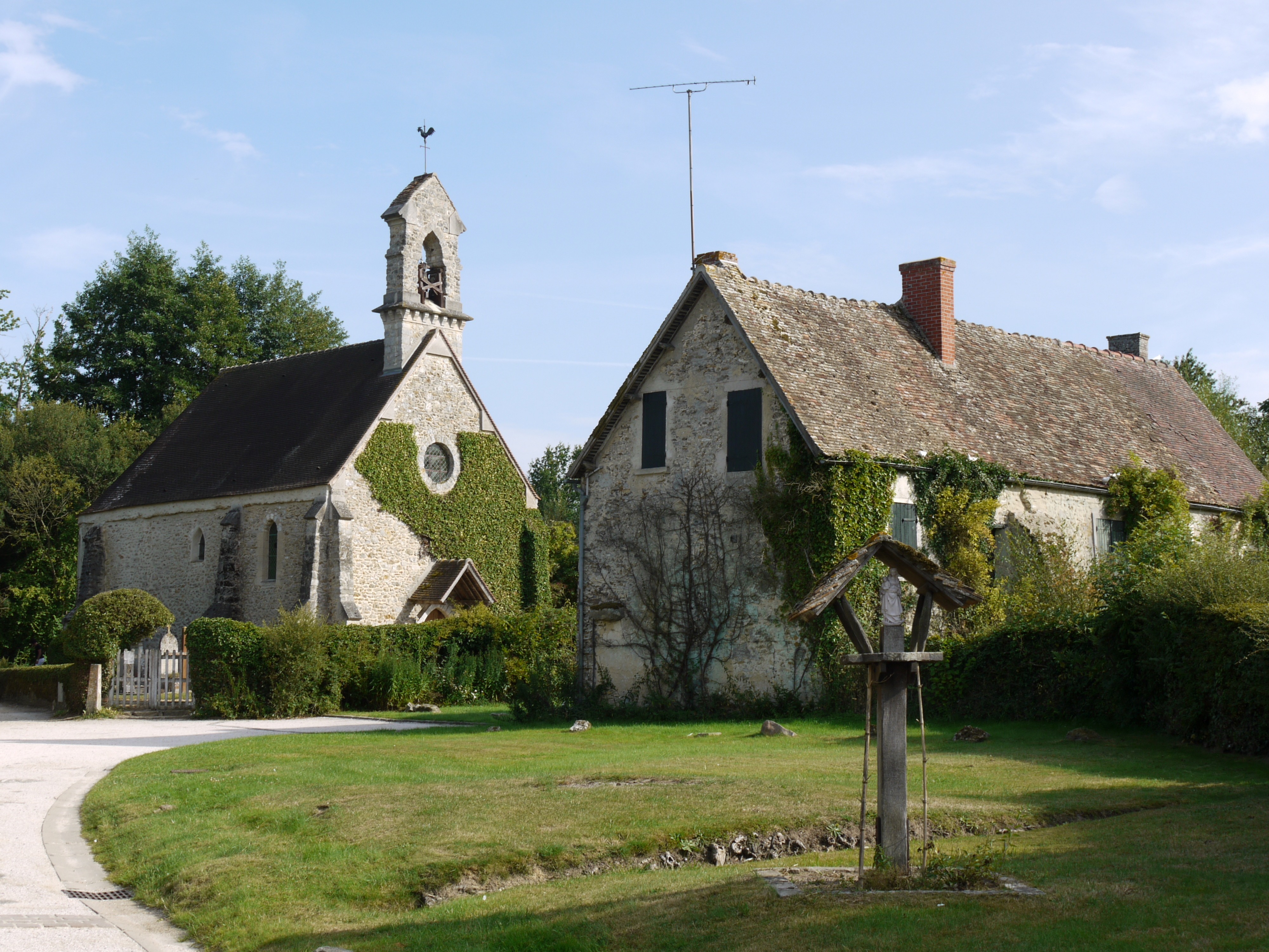 Gambeiseuil in the foret de Rambouillet, Ile de France